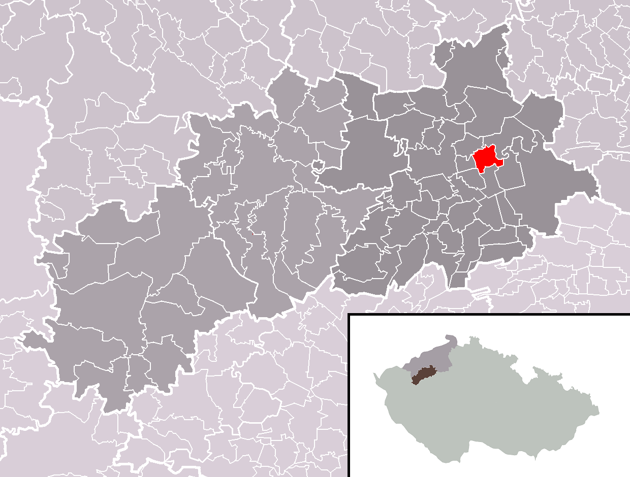 Location of Obora municipality within Louny District and administrative area of Louny as a Municipality with Extended Competence.